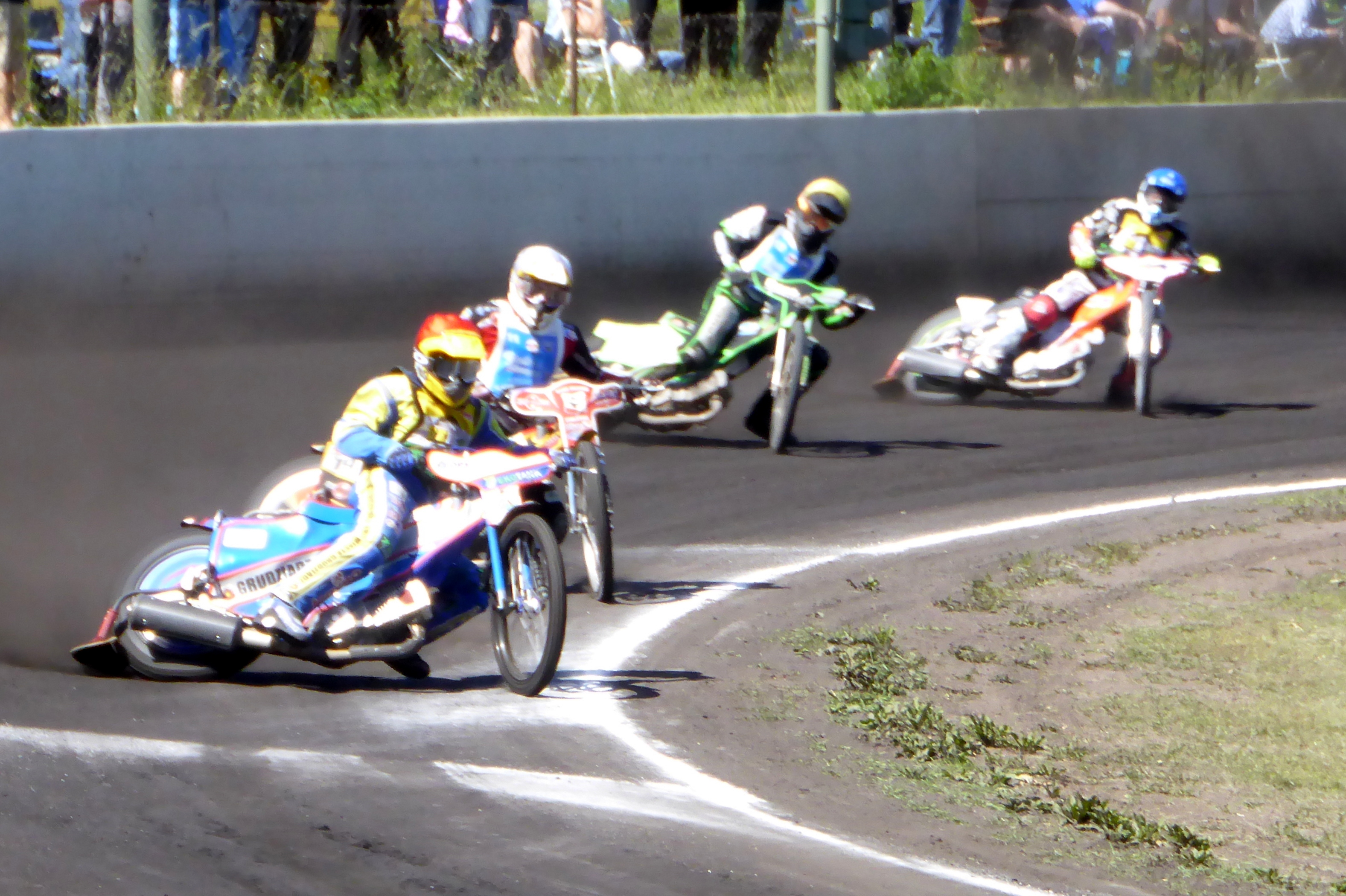 German Speedway Bundesliga. Wolfslake Falubaz Berlin vs Nordstern Stralsund in Wolkfslake.